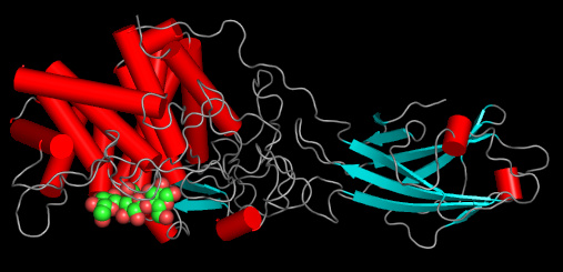 This image is based on the PDB structure 1JS4.pdb, created with PyMOL.